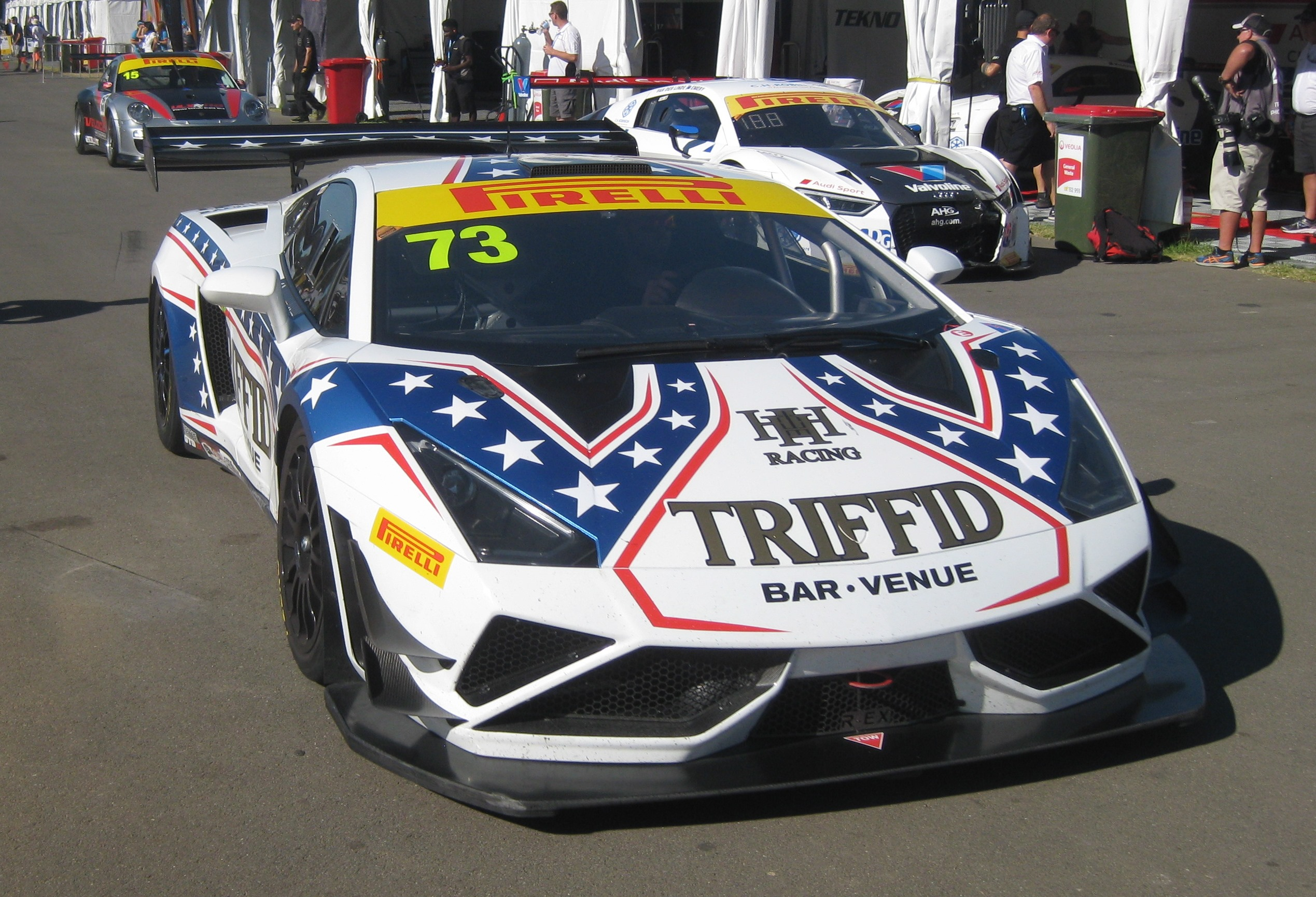 The Lamborghini Gallardo R-EX of Michael Hovey & Daniel Jilesen at the Adelaide Parklands Circuit for the opening round of the 2017 Australian GT Championship.